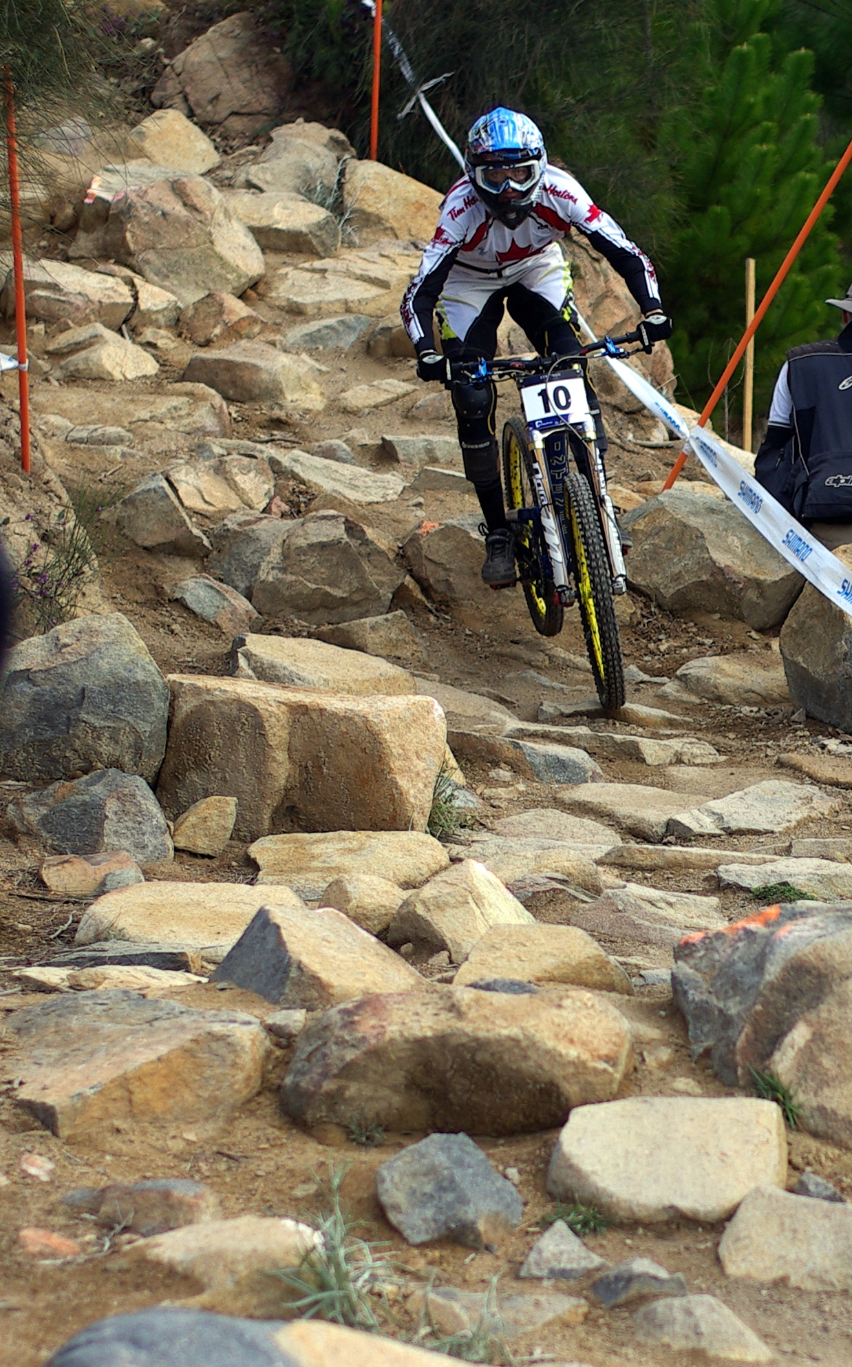 Cross-country mountain biking: Competitors in downhill events at the 2009 UCI Mountain Bike and Trials World Championships held at Mount Stromlo, near Canberra, Australia. Claire Buchar, Canada (Women's junior)